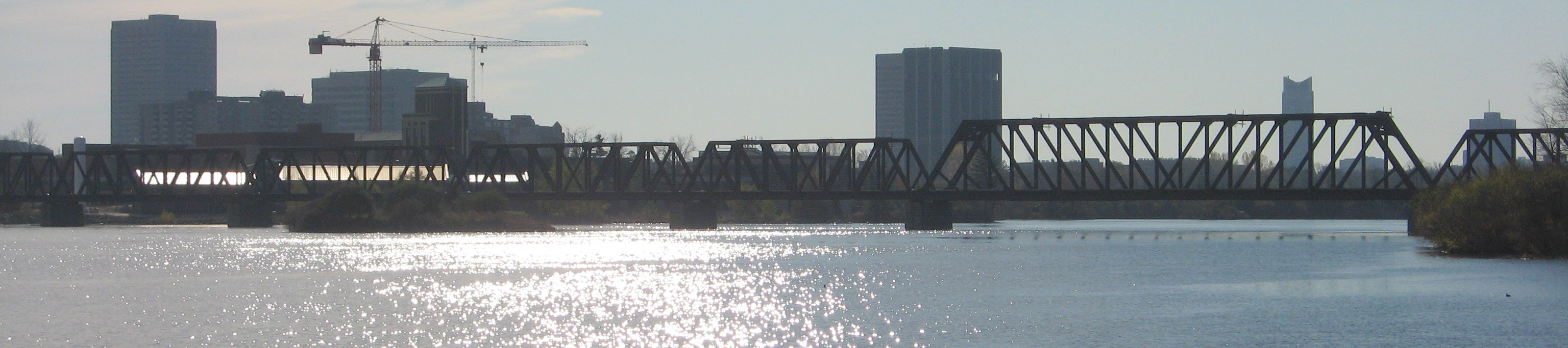 The OCRR rail bridge in Ottawa, Canada